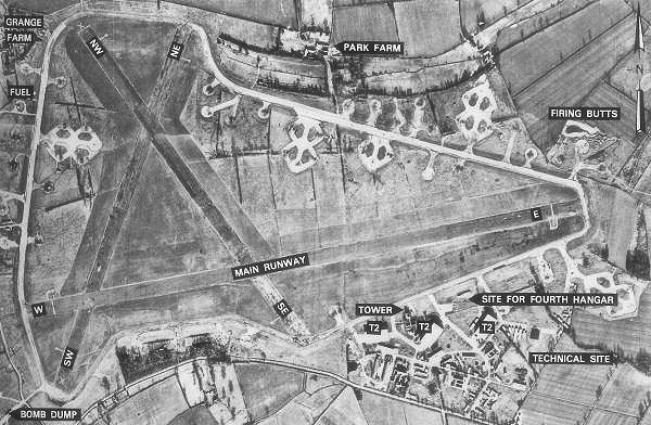 Aerial photograph of Shipdham Airfield, England.